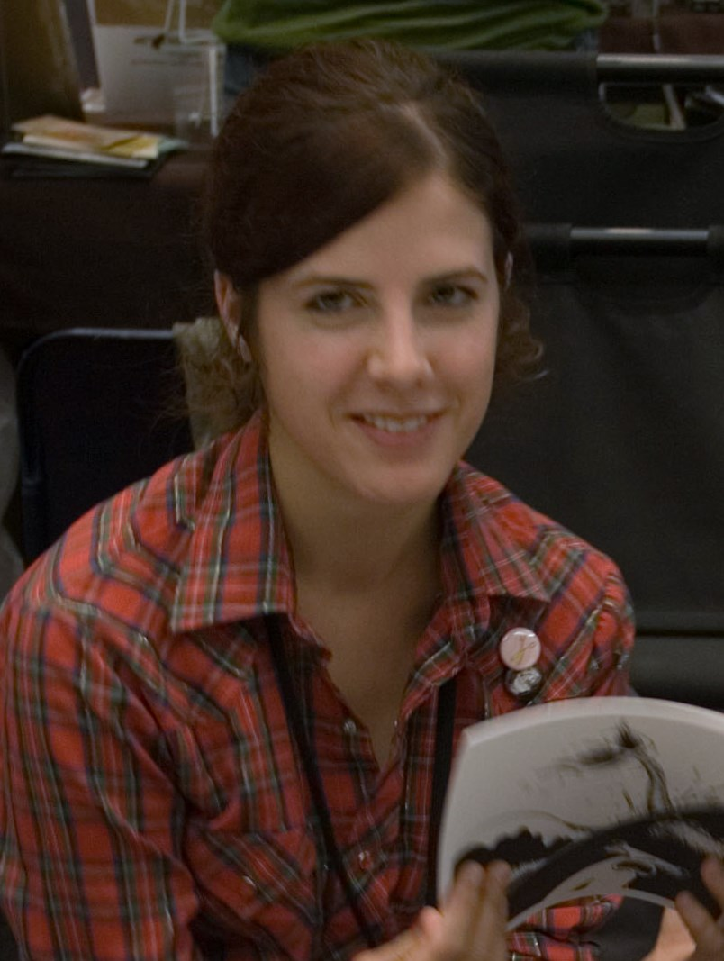 Julia Wertz at Stumptown Comics Festival in 2006.